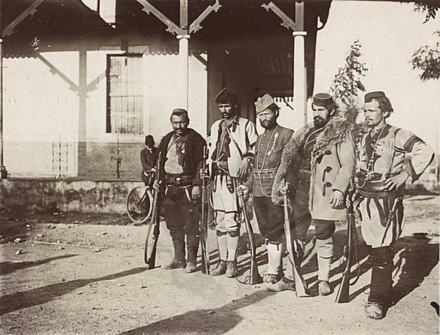 Gyurchin Petrov, Kraste Traykov and others